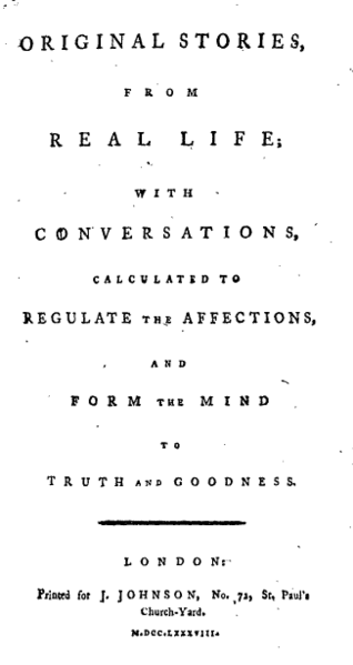 Title page from Mary Wollstonecraft, Original Stories from Real Life, London: Printed for Joseph Johnson, 1788.